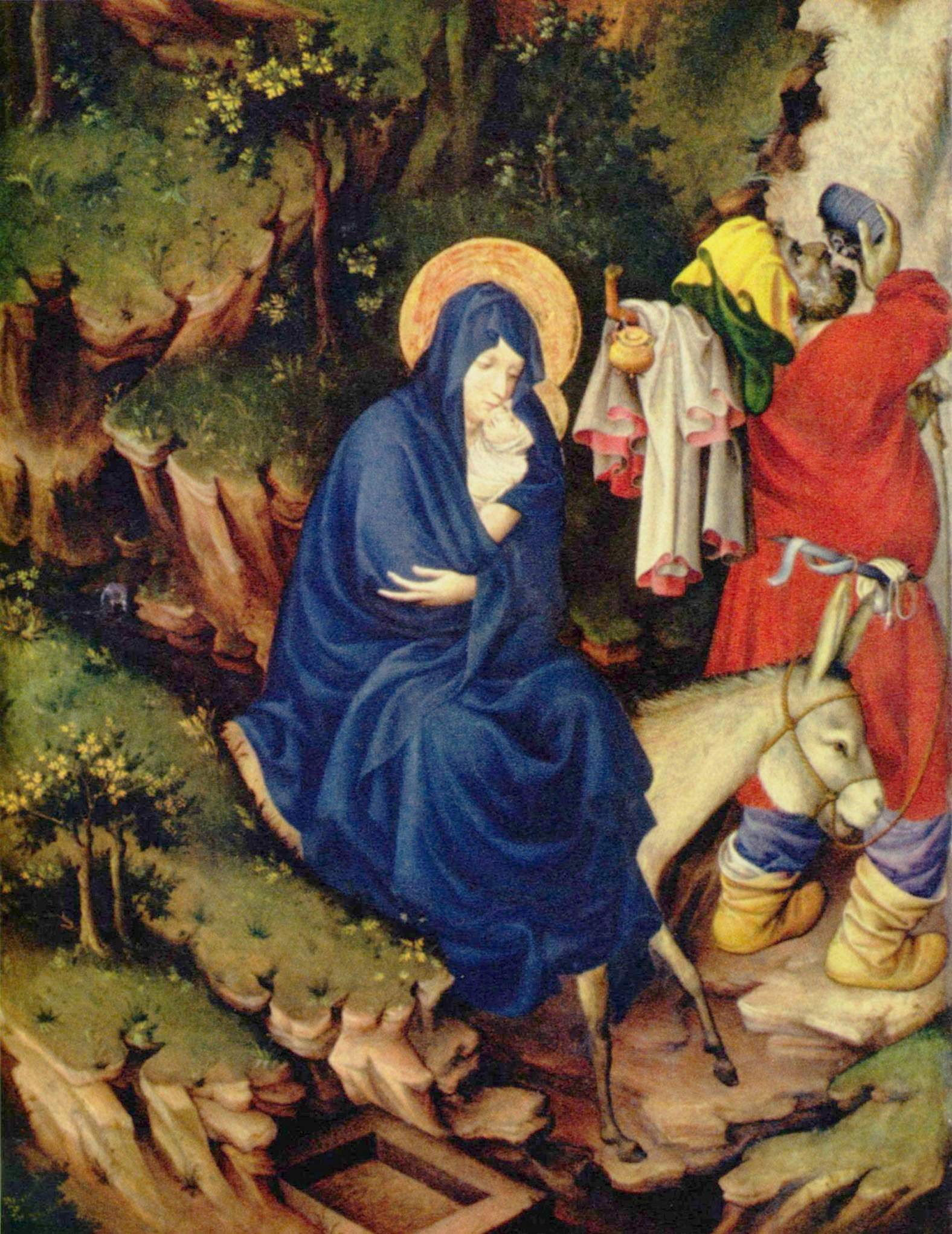 right wing: The Flight into Egypt, detail